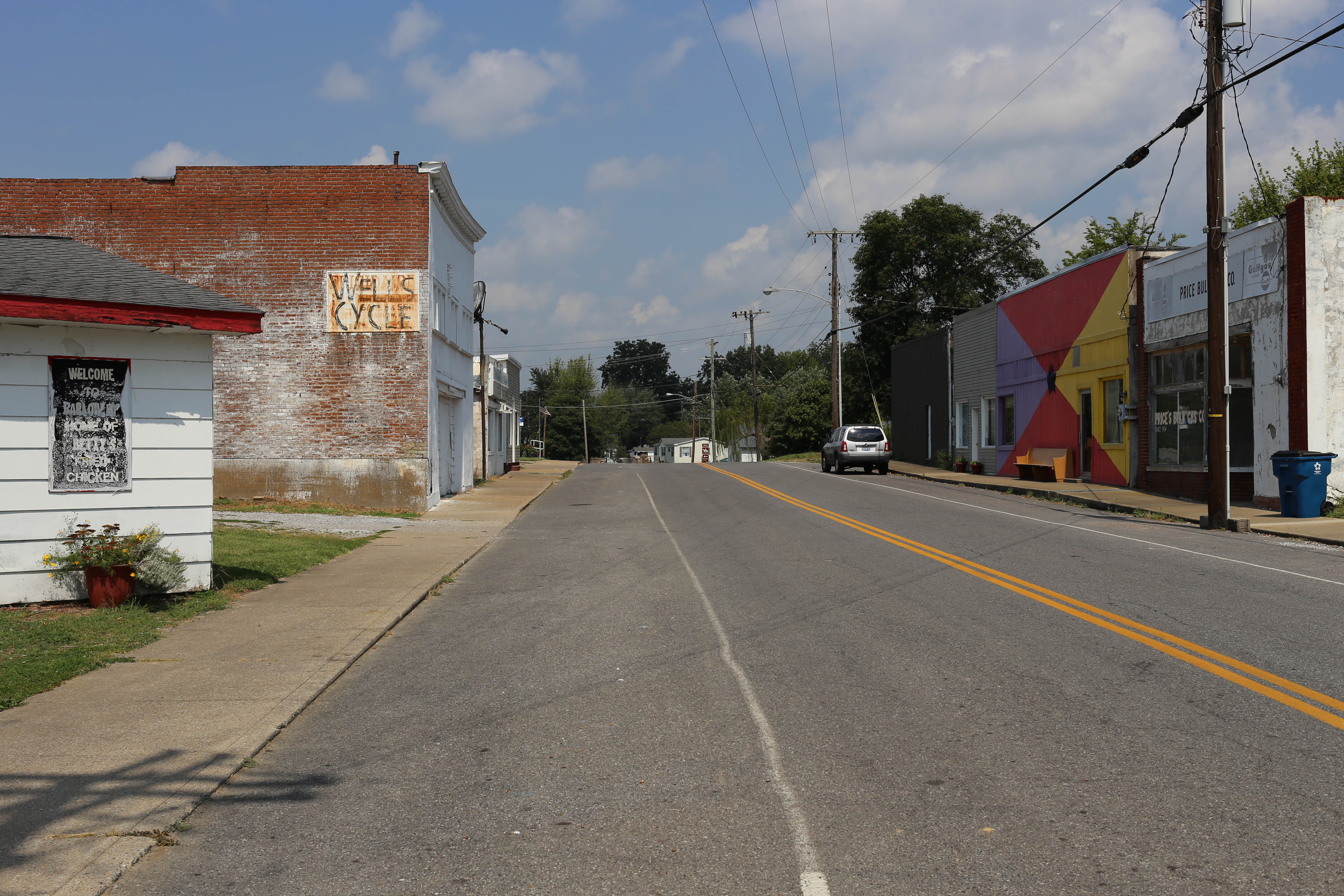 Barlow, KY